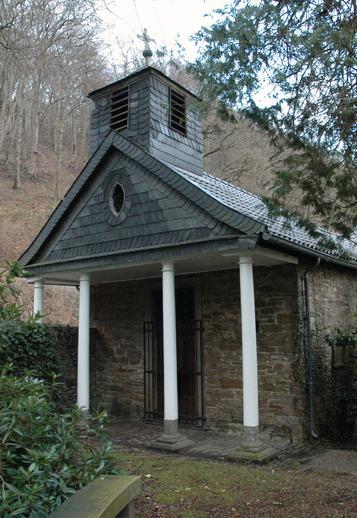 Baldeney Castle, chapel